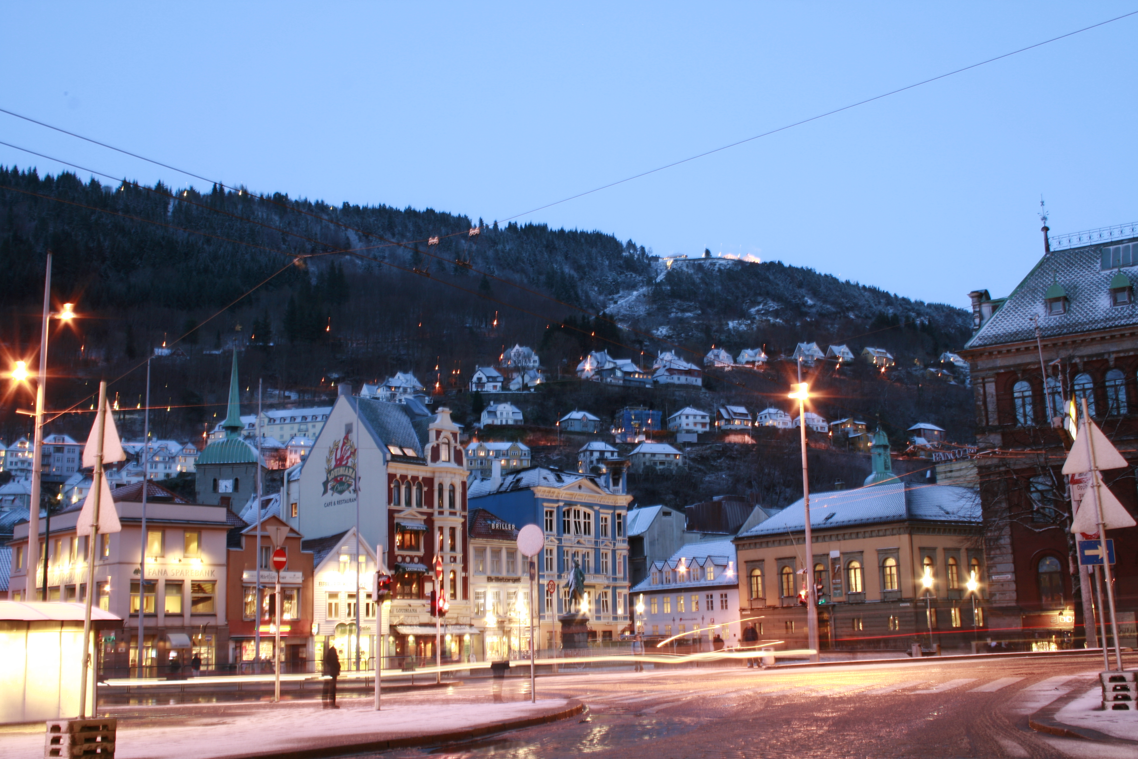 Fløyen as seen from the fish market. Bergen, Norway.